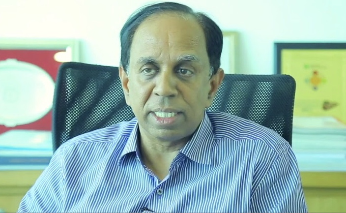 MD of Geojit